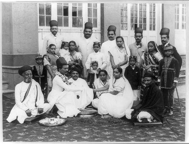 Mariage parsi en costume traditionnel TITLE: Parsee wedding, India REPRODUCTION NUMBER: LC-USZ62-91595 (b&w film copy neg.) No known restrictions on publication. SUMMARY: Group of 21 people posed. MEDIUM: 1 photographic print. CREATED/PUBLISHED: [between ca. 1890 and 1923] CREATOR:Bourne & Shepherd. NOTES:Frank and Frances Carpenter Collection (Library of Congress). Photograph by Bourne & Shepherd, Bombay.